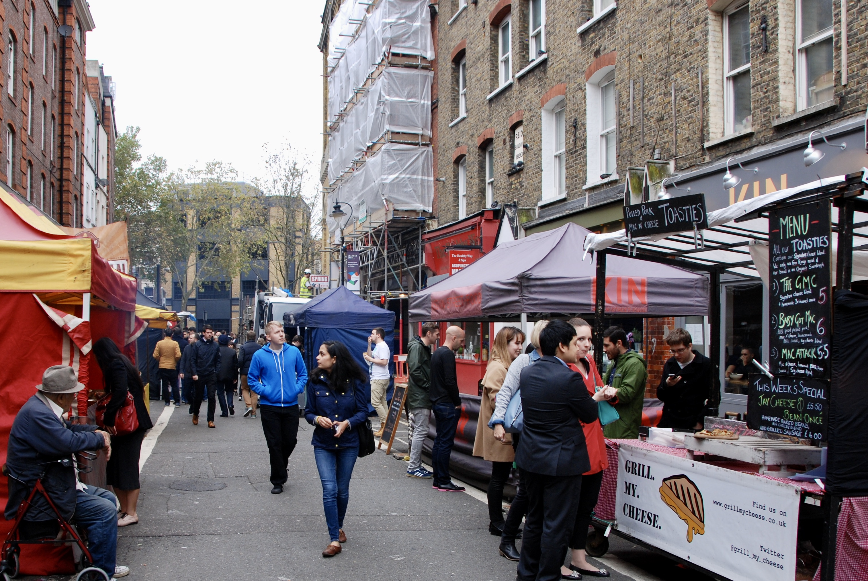 Leather Lane Market, looking northwards towards Clerkenwell